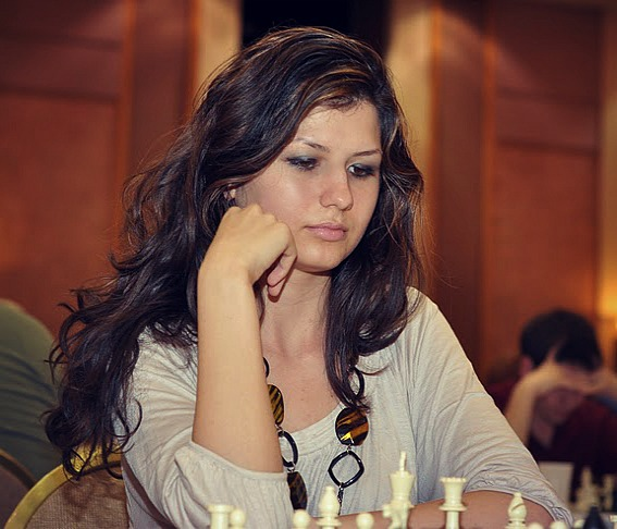 US Open 2010, Orlando, Florida